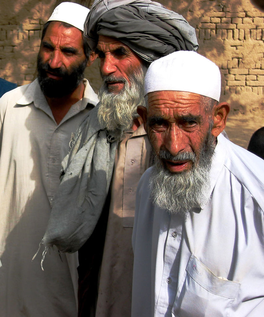 Wakil and village elders Western Kabul Province.